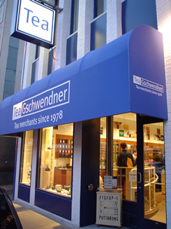 I took this picture myself.